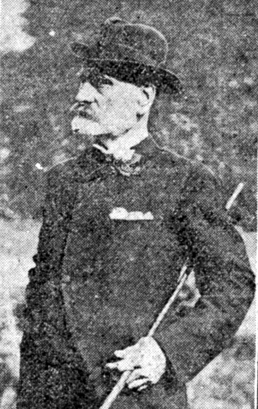 Rare photograph of Ebenezer Morley, published in advance of the 50th anniversary celebrations of the Football Association held in 1913. Original caption: "the founder of the Football Association will be present at the Association Jubilee banquet".